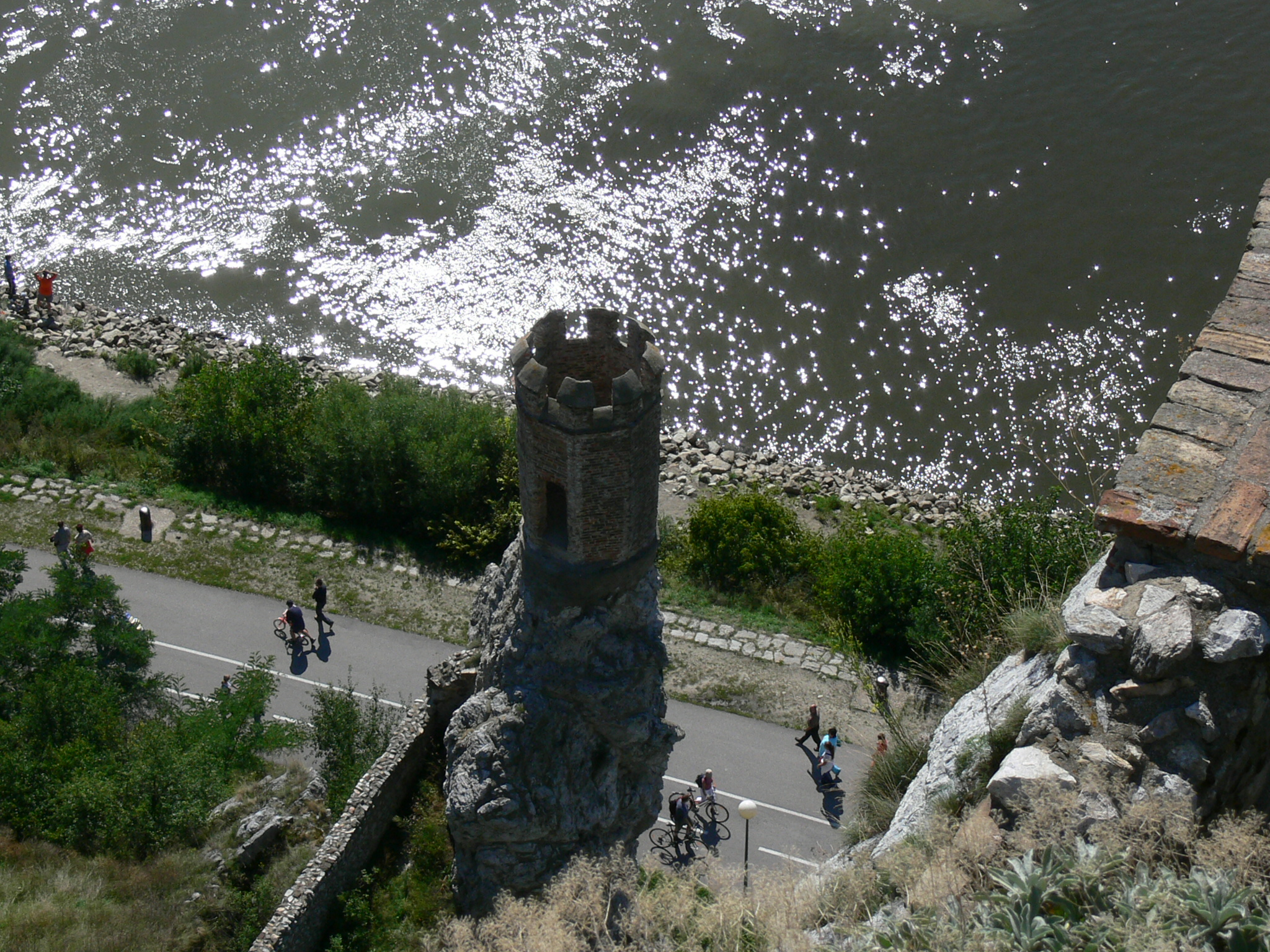 Slovakia, Devin castle, Panenská veža ("Virgin tower") - a sight from above